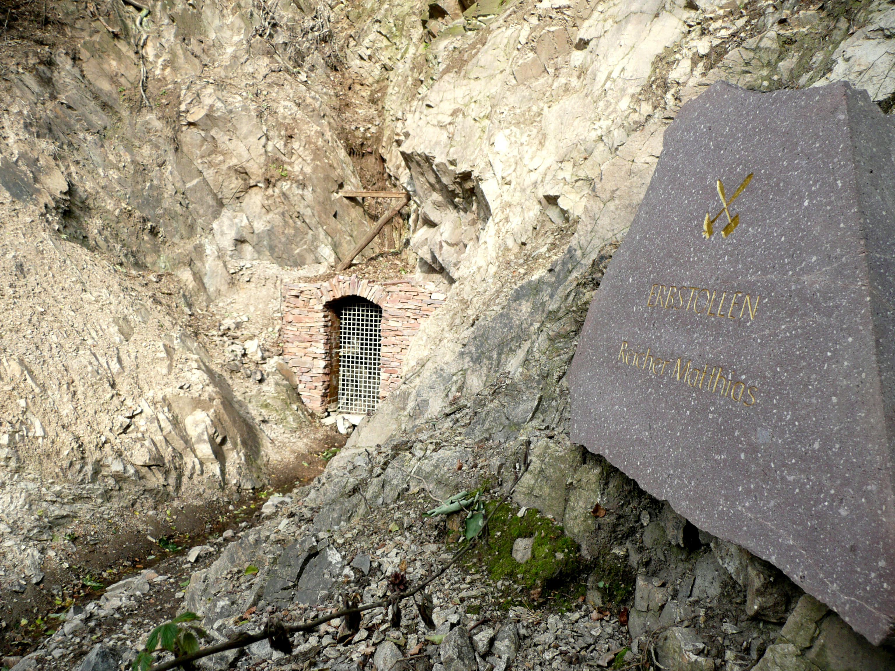 This image shows the portal of the closed silver-mine "Reicher Matthias Erbstolln" in Grund near Wilsdruff.